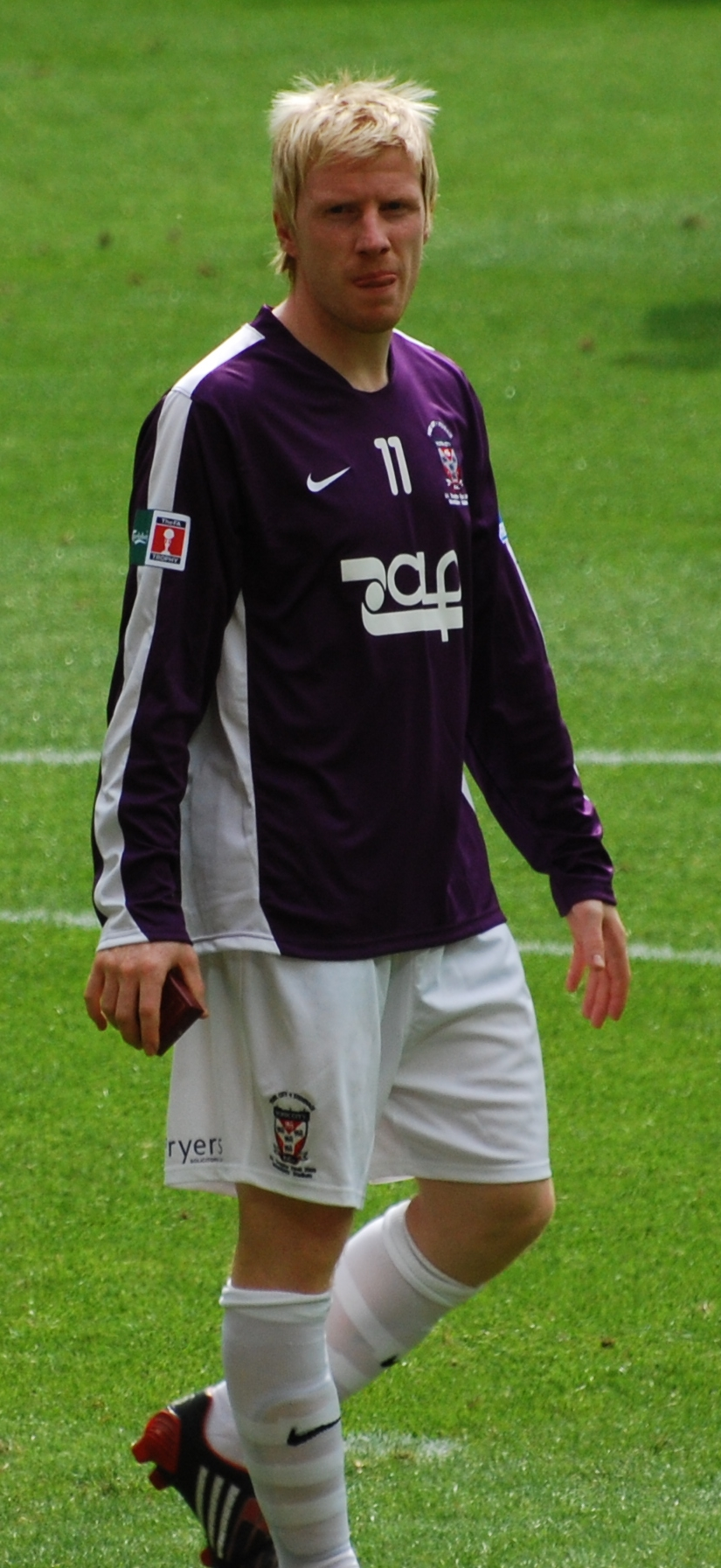 Simon Russell playing for York City against Stevenage Borough at Wembley Stadium, London on 9 May 2009